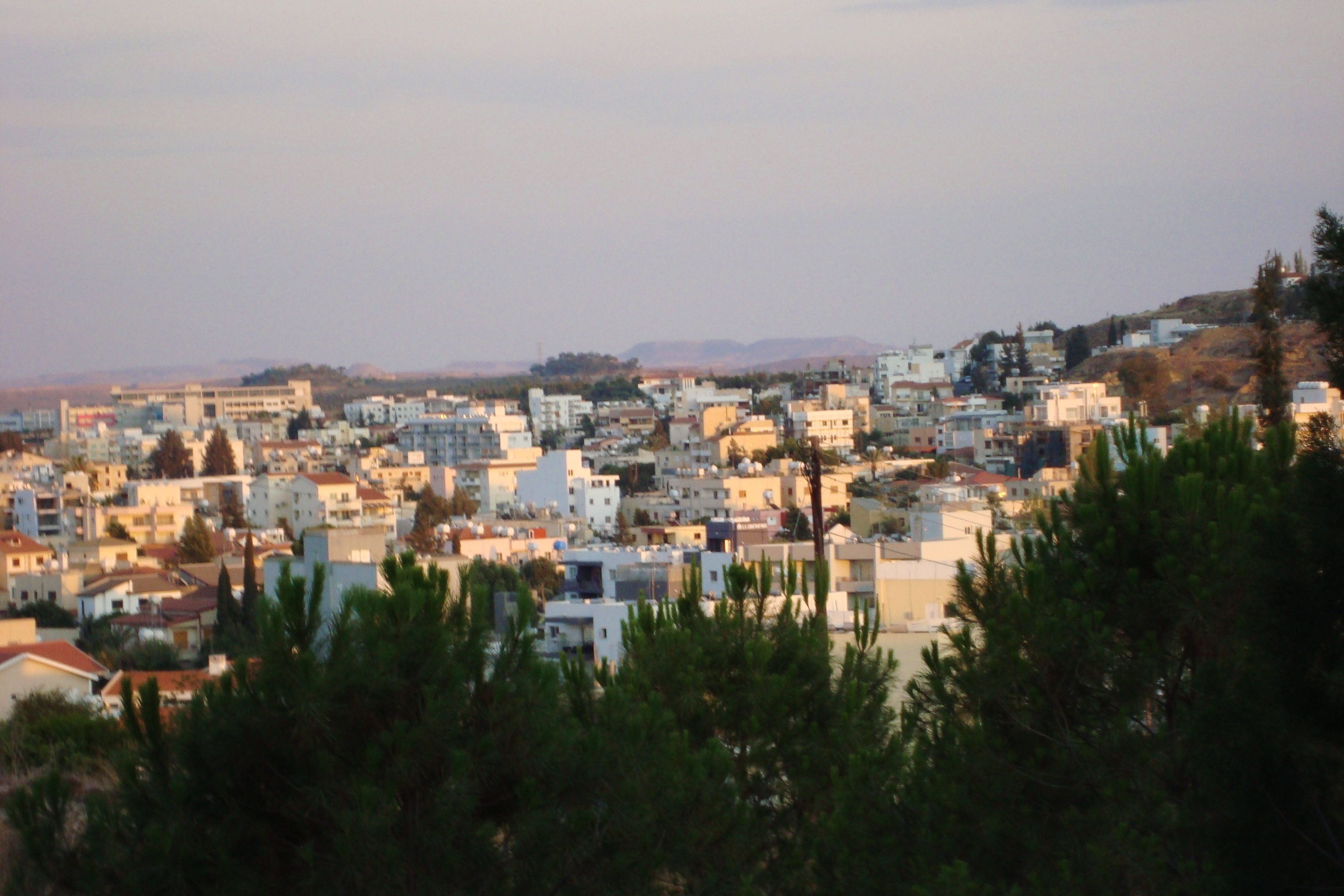 View of Aglandjia Nicosia Republic of Cyprus